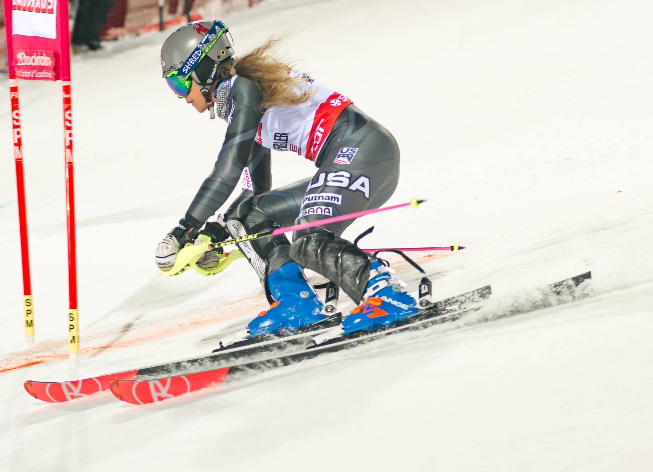 Resi Stiegler in action Photo by Roland Osbeck